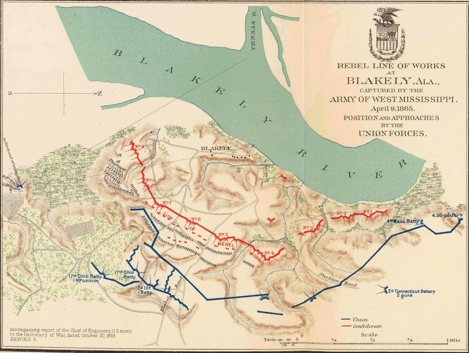 Short Title: Mobile, Blakely, Messinger's Ferry-Canton. Publisher: Washington: U.S. Government Printing Office Three col. maps, with 15 ancillary maps. Relief shown by hachures. Campaign map 11 contains 4 maps. Accompany reports of Chief of Engineers, U.S. Army, A.S. Williams and James B. McPherson. No. 10. Map of the defenses of the city of Mobile. Rebel line of works at Blakely, Ala., captured by the Army of West Mississippi, April 9, 1865. Position and approaches by the Union forces. Expedition from Messinger's Ferry toward Canton, Miss., October 14-20, 1863. (with) Campaign maps, numbers 1 to 11 inclusive, showing position of 20th Army Corps on march from Atlanta, Ga. to Savannah, Ga., with dates and Union and rebel defenses, from surveys of Topographical Engineers 20th Army Corps. Position of troops by Lieut. Col. C.W. Asmussen ... December 1864. (with) Position occupied by troops from French's division at the crossing of the Cattahoochee River. S.G. French, Major-General, C.S. Army. Julius Bien & Co., Lith., N.Y. (1891-1895) Engraver or Printer: Julius Bien & Co. ; Asmussen, Charles W. ; French, Samuel G. Published title: Atlas to accompany the official records of the Union and Confederate armies. Published under the direction of the Hons. Redfield Proctor, Stephen B. Elkins and Daniel S. Lamont, secretaries of war, by Maj. George B. Davis, U.S. Army, Mr. Leslie J. Perry, civilian expert, Mr. Joseph W. Kirkley, civilian expert, Board of Publication. Compiled by Capt. Calvin D. Cowles, 23d U.S. Infantry. Washington: Government Printing Office, 1891-1895. Published reference: LC Civil War maps (2nd ed.), 99; Civil War maps in the National Archives, 8; Phillips, 1353; LeGear. Atlases of the United States, 266.